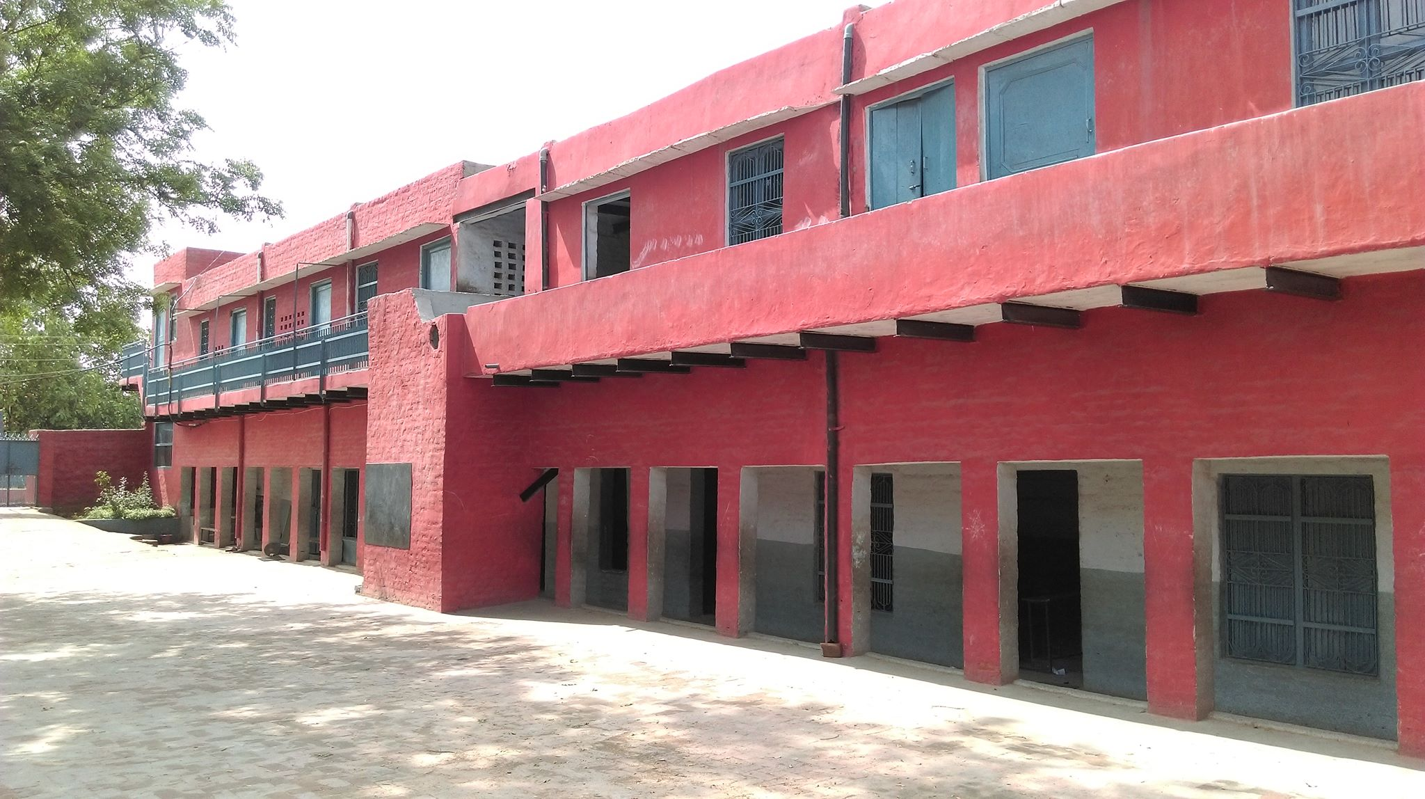 School building